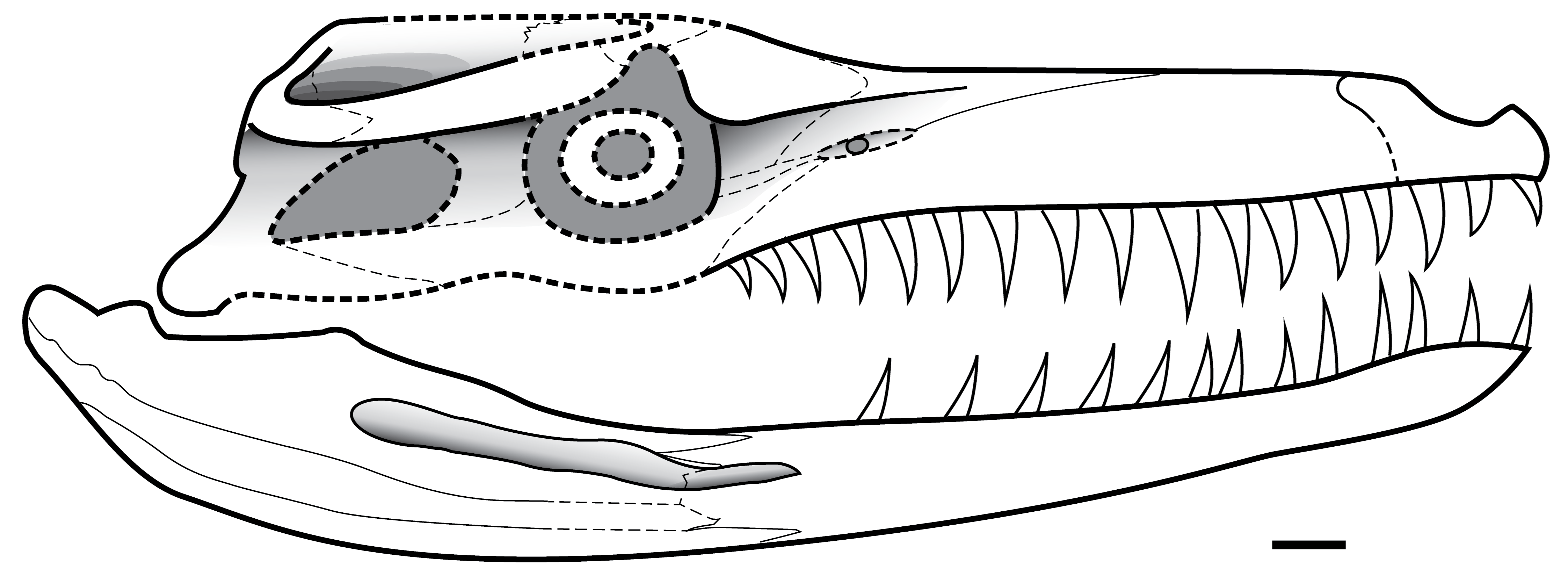 Lateral reconstruction of the skull of Plesiosuchus manselii, based on the mandible of NHMUK PV OR40103a.